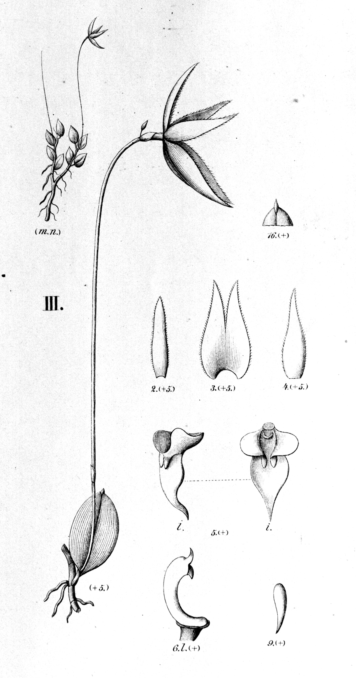 Illustration of Barbosella gardneri (as syn. Restrepia microphylla)